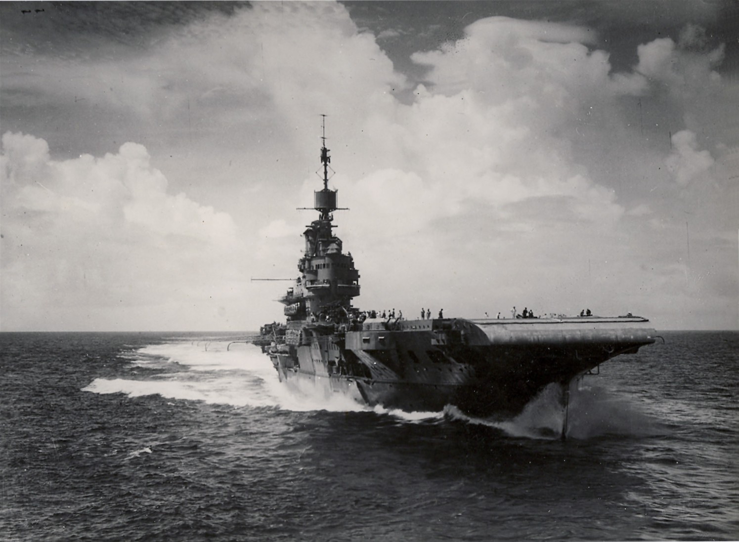 The British Royal Navy aircraft carrier HMS Illustrious (87) at sea in the Indian Ocean between 27 March and 18 May 1944, while operating with the U.S. Navy carrier USS Saratoga (CV-3).